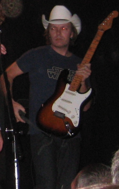 Photo of Michael Gurley before performance at the Whiskey A Go Go